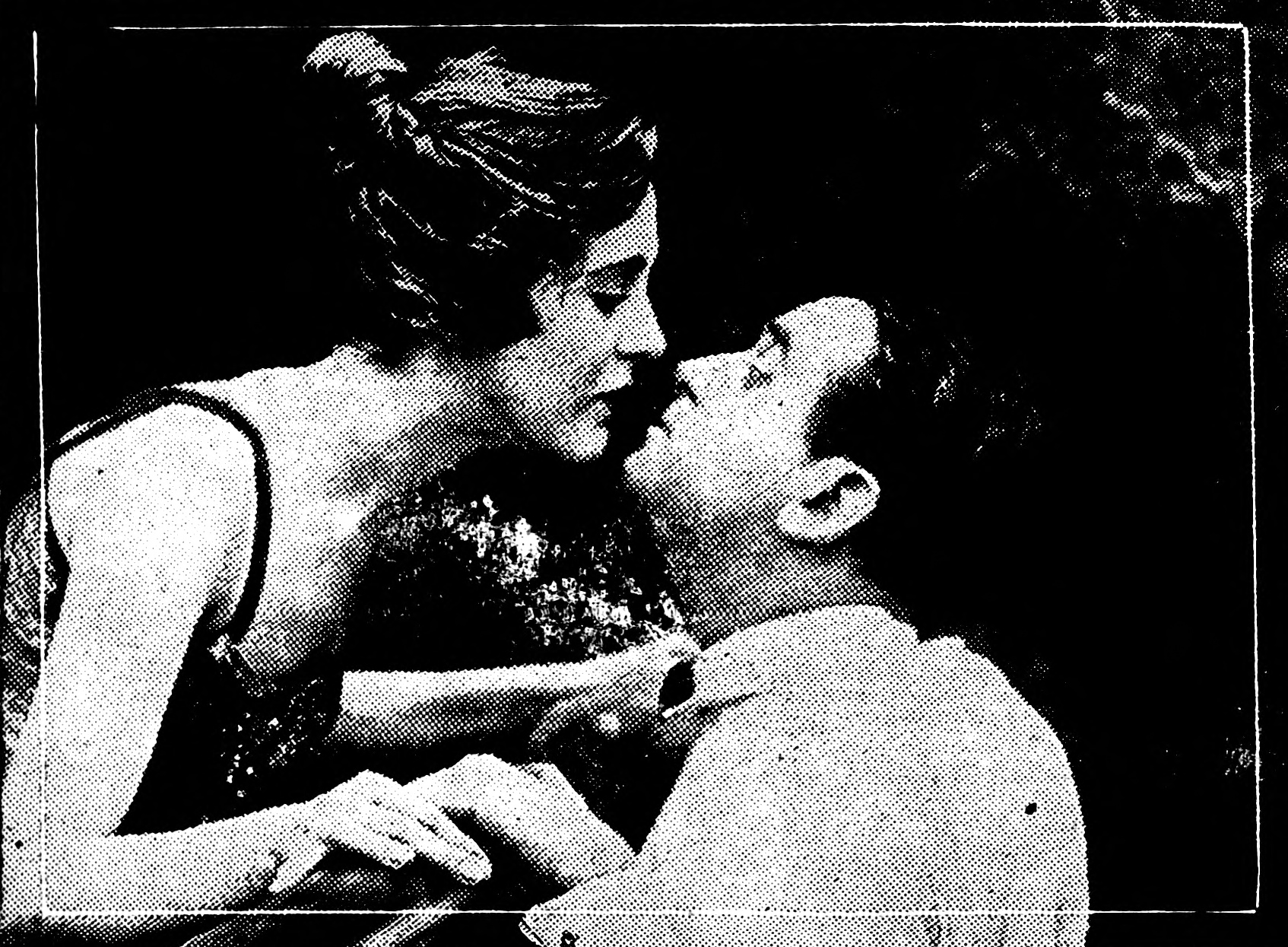 Jewel Carmen & Douglas_Fairbanks in a publicity photo for the 1916 film "Manhattan Madness"